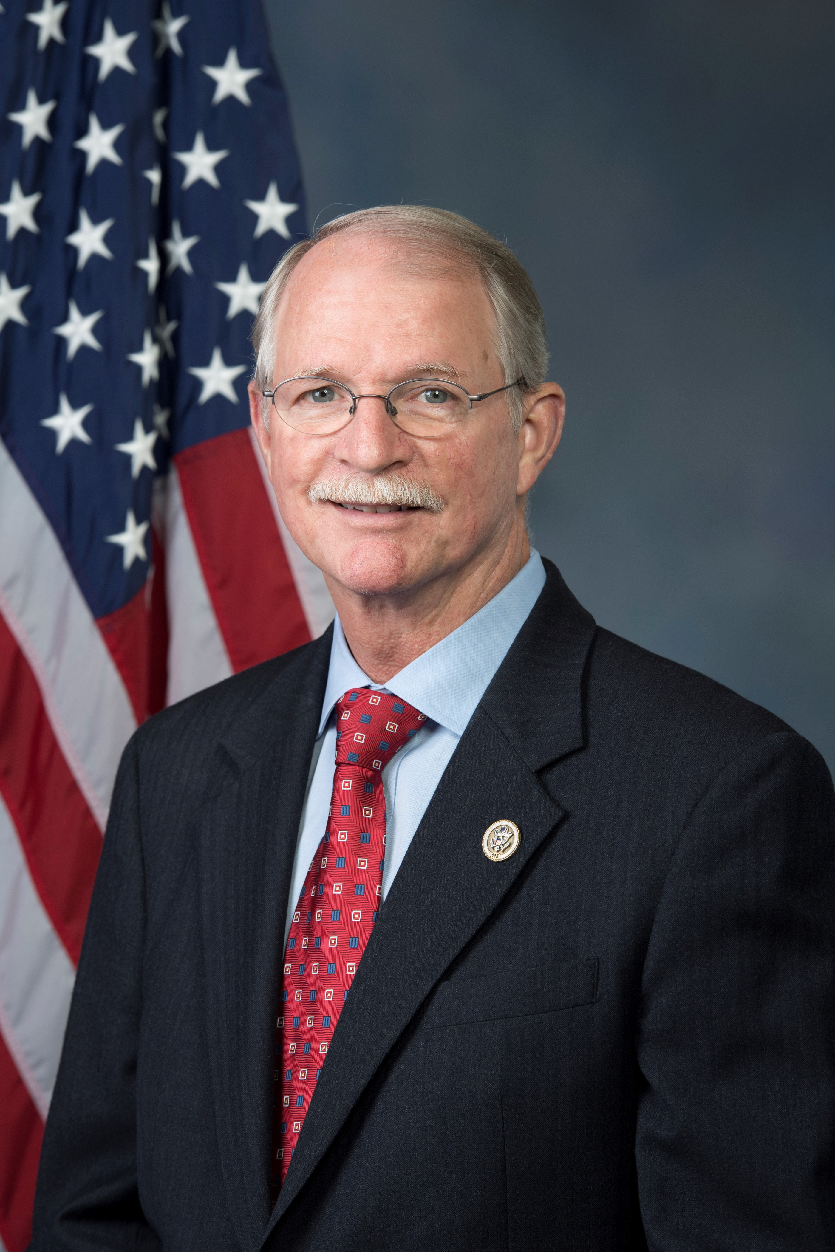 John Rutherford official photo